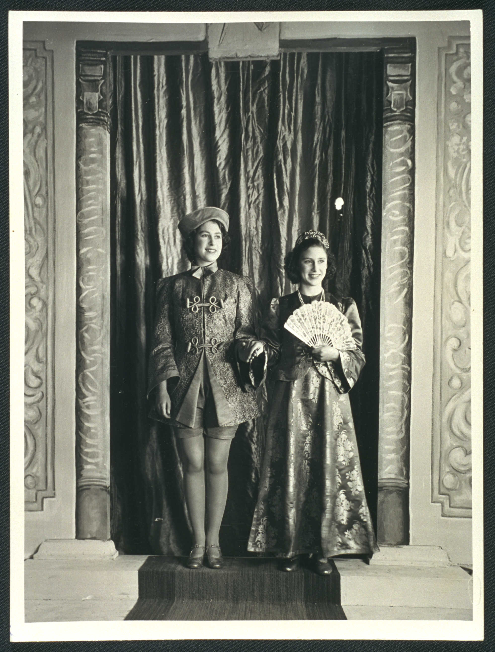 Daily Herald Archive at the National Media Museum A gelatin silver photograph of Princesses Elizabeth and Margaret starring in a Windsor Castle wartime production of the pantomime Aladdin. Princesses Elizabeth, our current Queen, played Principal Boy whilst Princess Margaret played Princess of China.